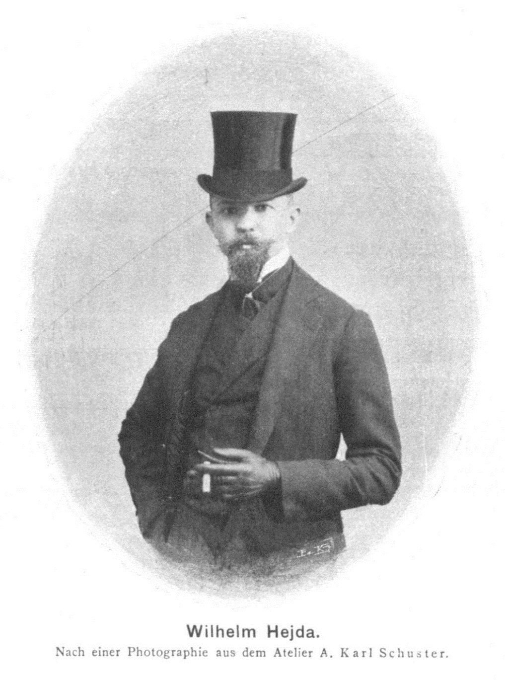 Portrait of Wilhelm Hejda (1868-1942), Austrian sculptor.